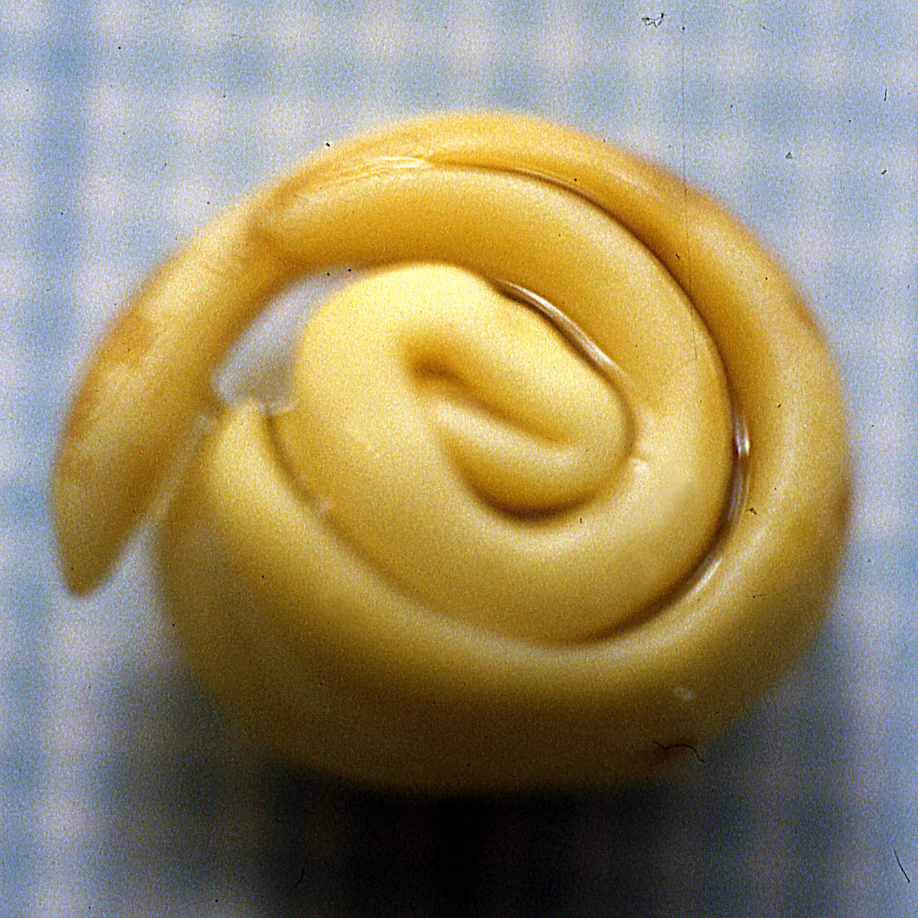 Embryo of Koelreuteria paniculata